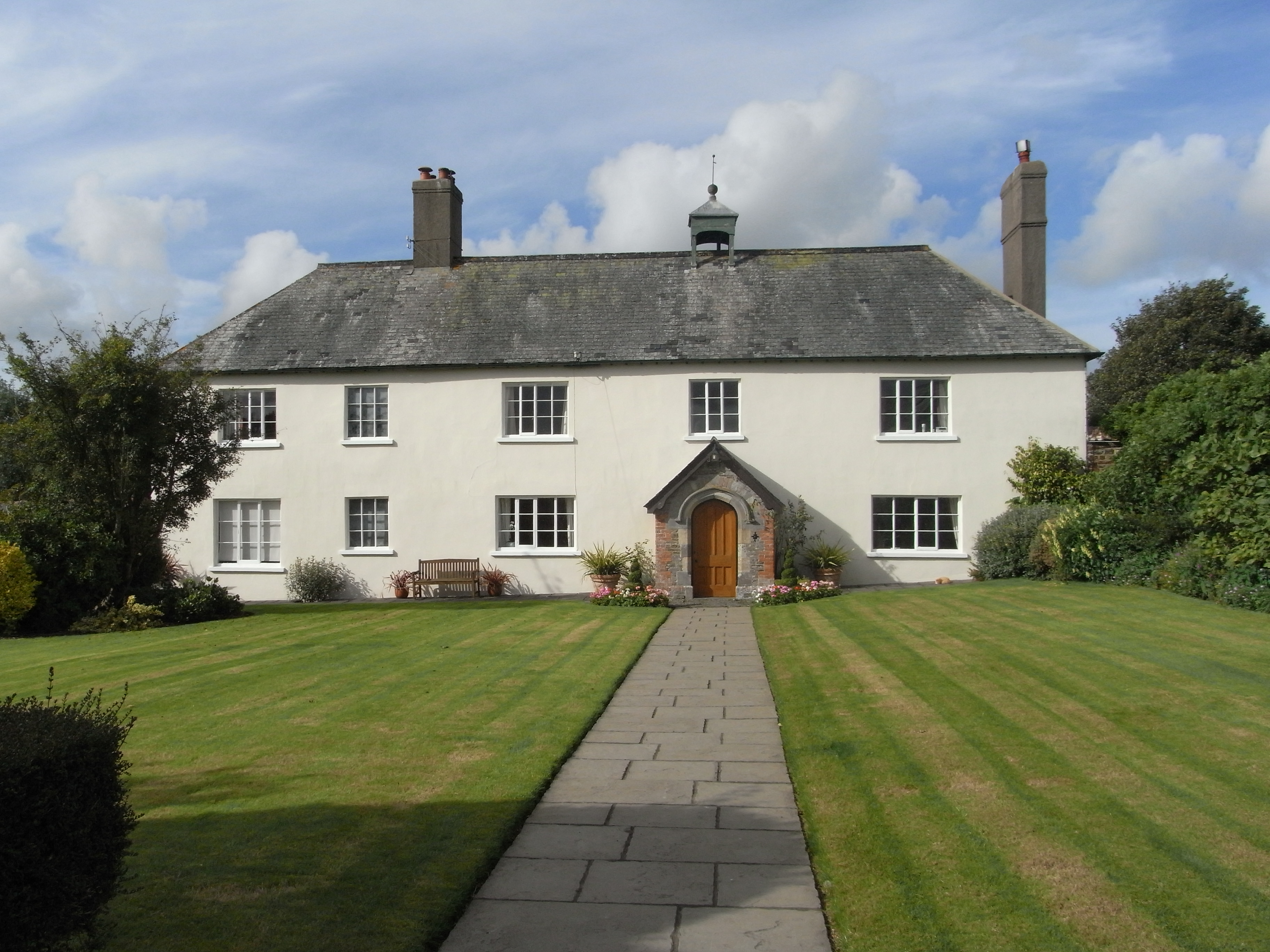 Winscott Barton, St Giles in the Wood, near Torrington, Devon. The present house occupies the site of the former mansion house, historic home of the historian Tristram Risdon (d.1635)